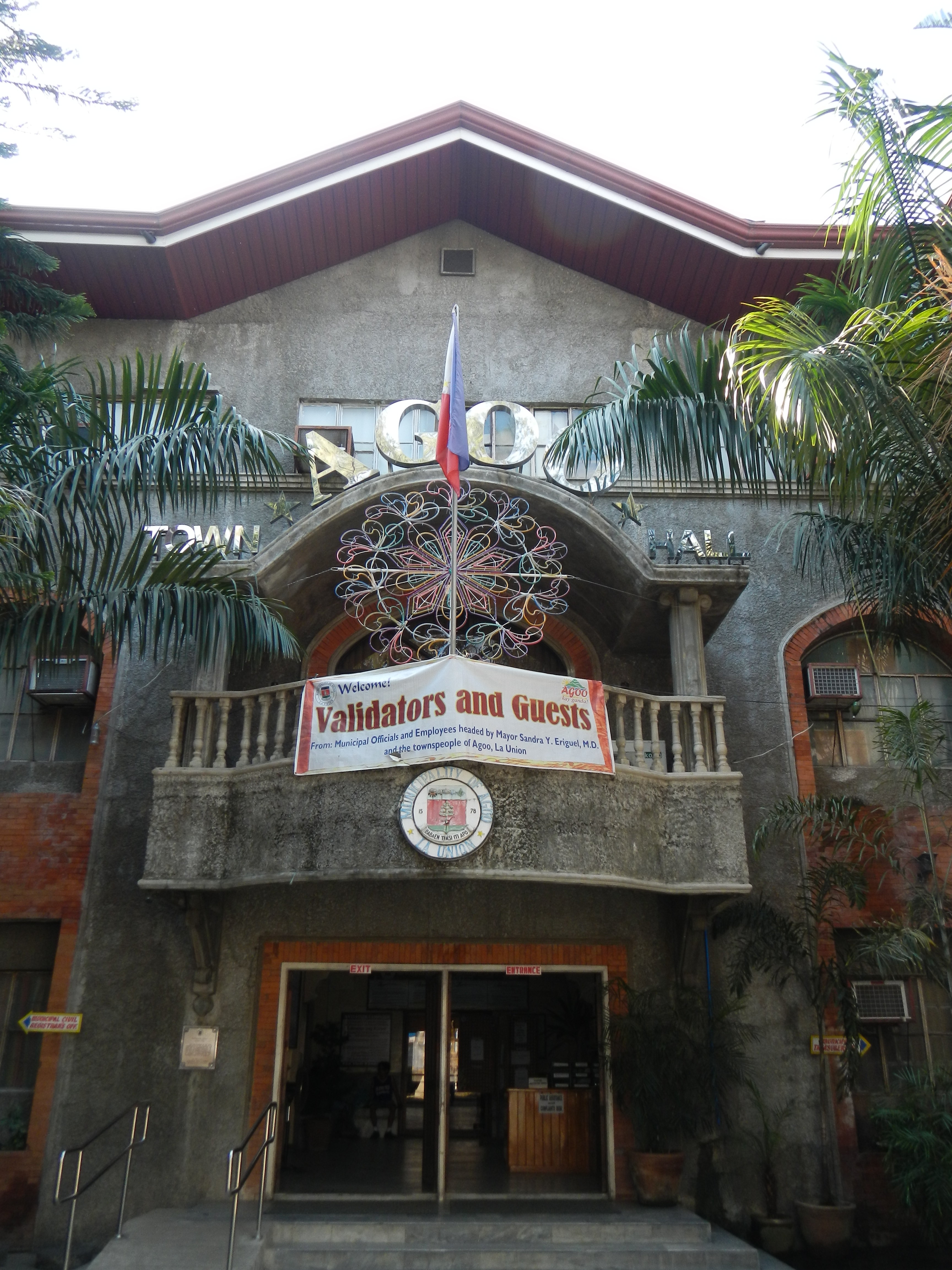 Agoo, La Union[1]